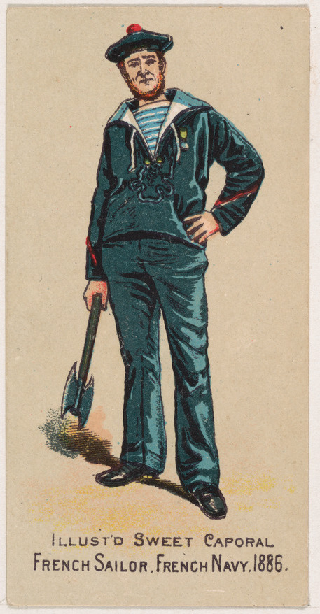 Print; Prints